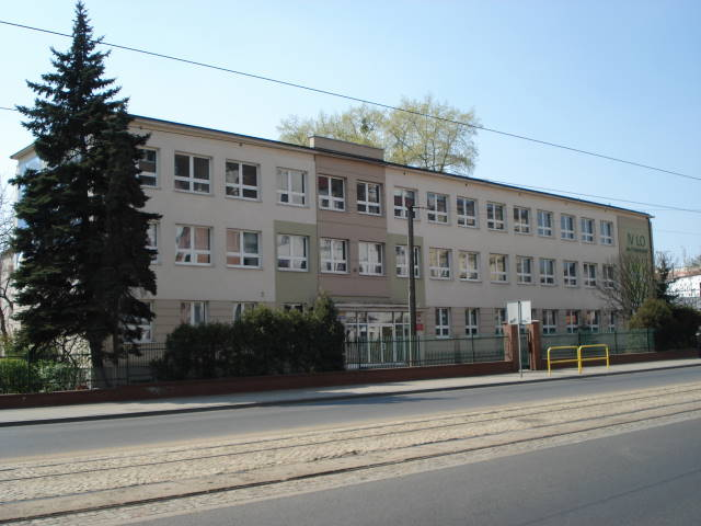 Tadeusz Kościuszko Secondary School (No. 4) in Toruń